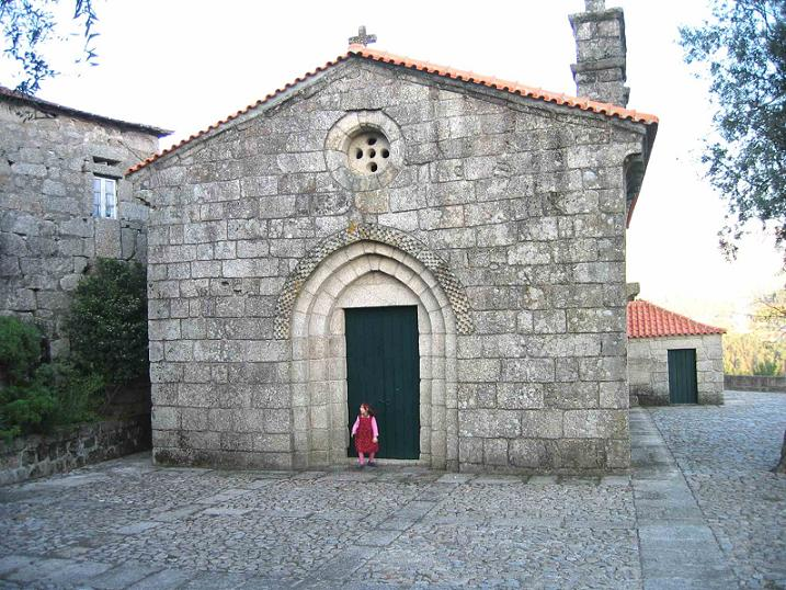 Romanic Church of Gondar - Amarante - Portugal